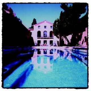 Paramour Estate in Silverlake, Los Angeles, CA.